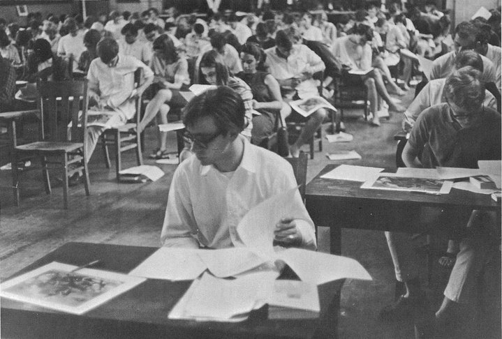 Comprehensive exam at Shimer College in Mt. Carroll.